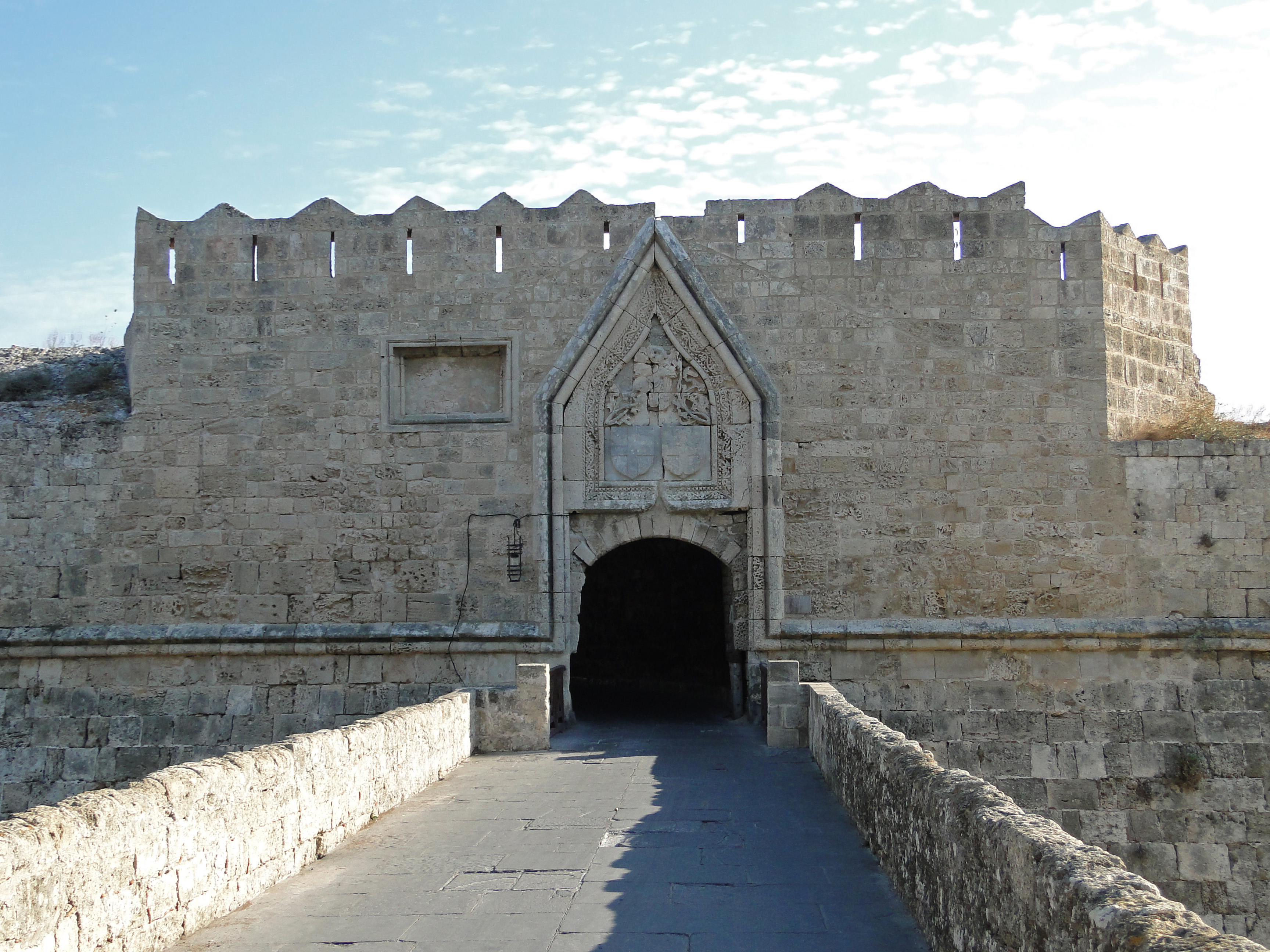 Gate of Saint John in the Medieval City of Rhodes, Greece